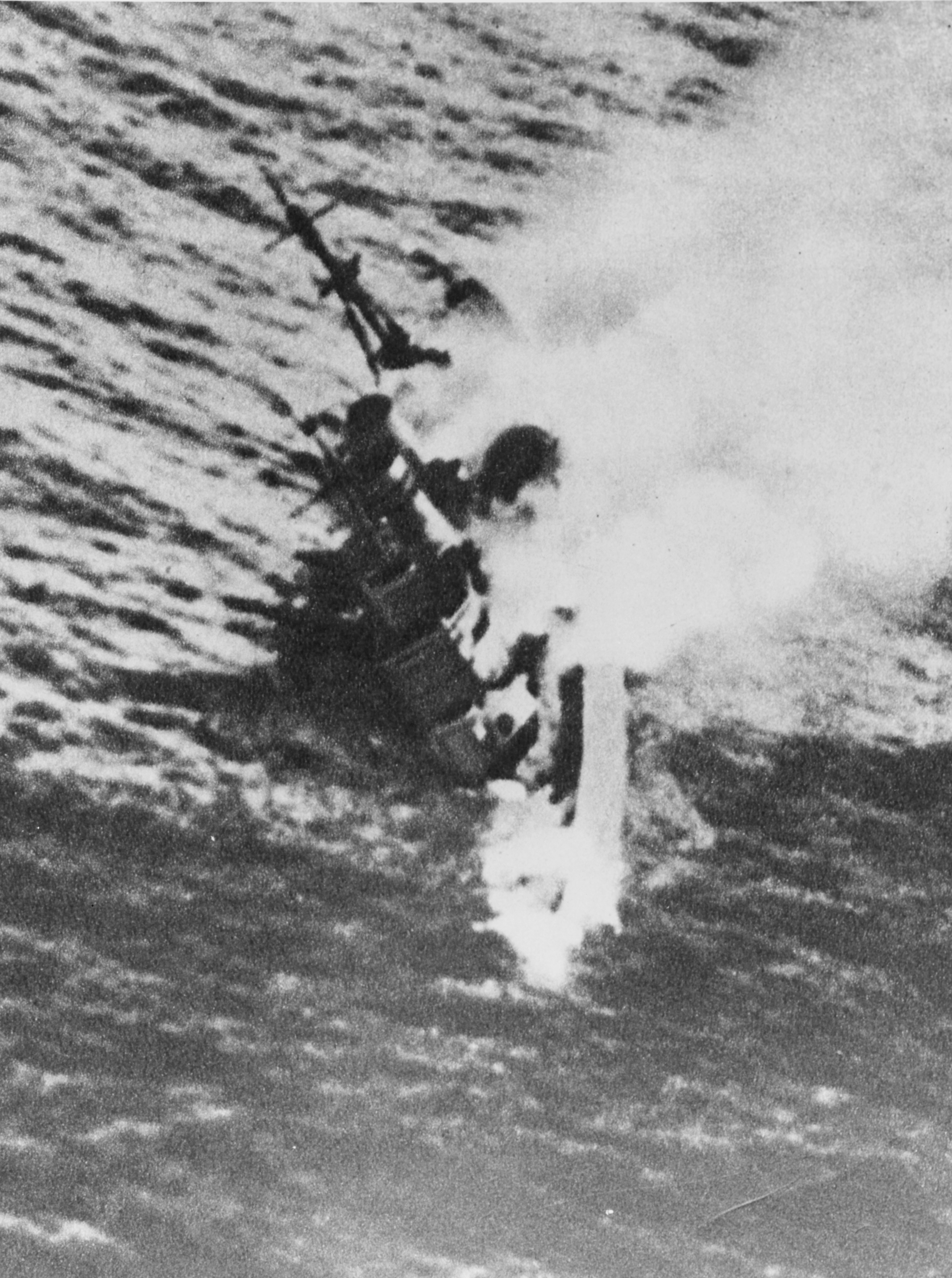 The Royal Navy heavy cruiser HMS Exeter (68) sinking after the Battle of the Java Sea, 1 March 1942.